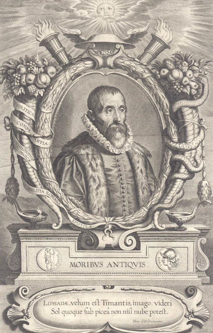 Justus Lipsius (1547-1606).